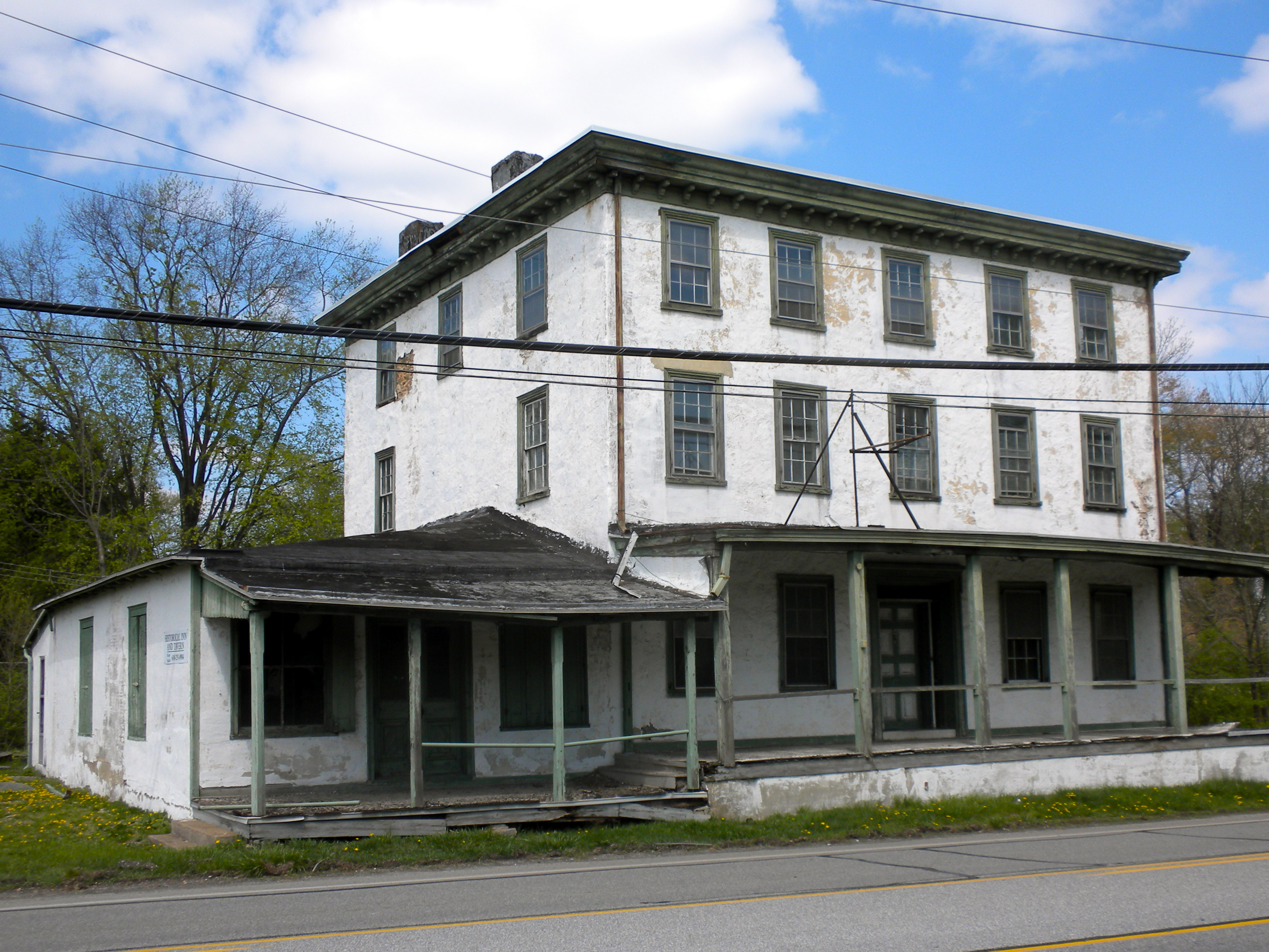 Exton Hotel on NRHP since January 11, 1983. At 423 East Lincoln Highway (US 30) just east of Exton, Chester County, PA, West Whiteland Township. Now empty - looking for a kind owner!